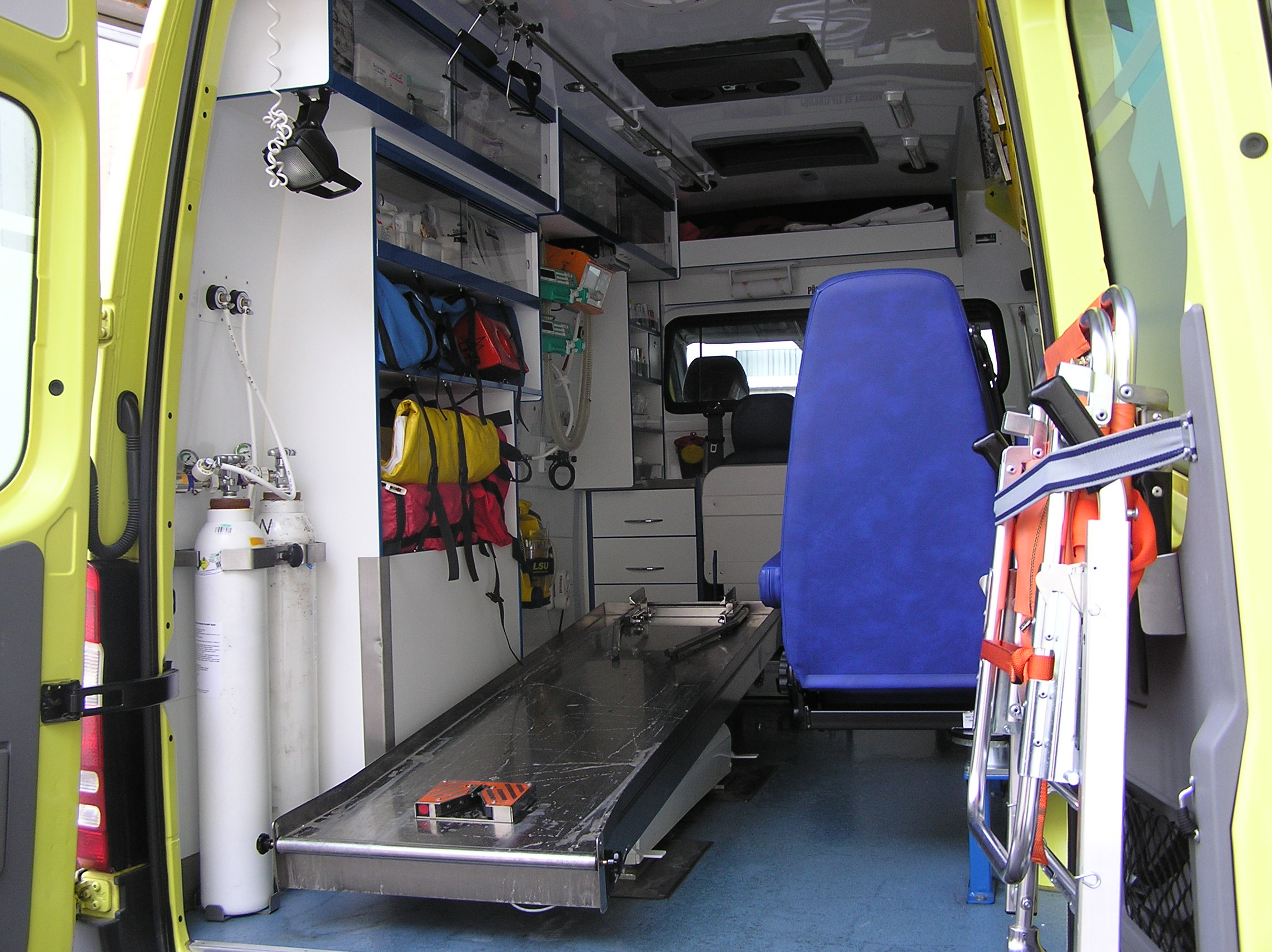 Ambulance vehicle (equipment) Mercedes-Benz Sprinter of the Emergency Medical Service of Moravian-Silesian Region, Czech Republic